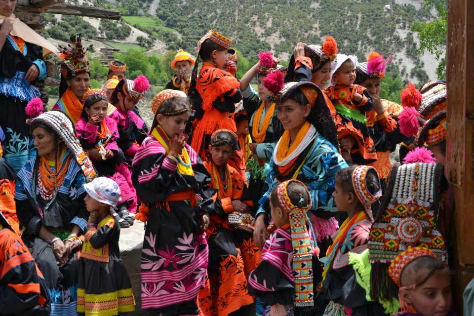 Kafirstan People